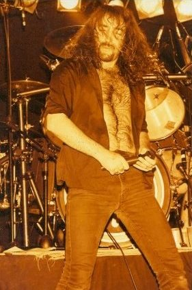 Kurt Brecht during a concert in 2008